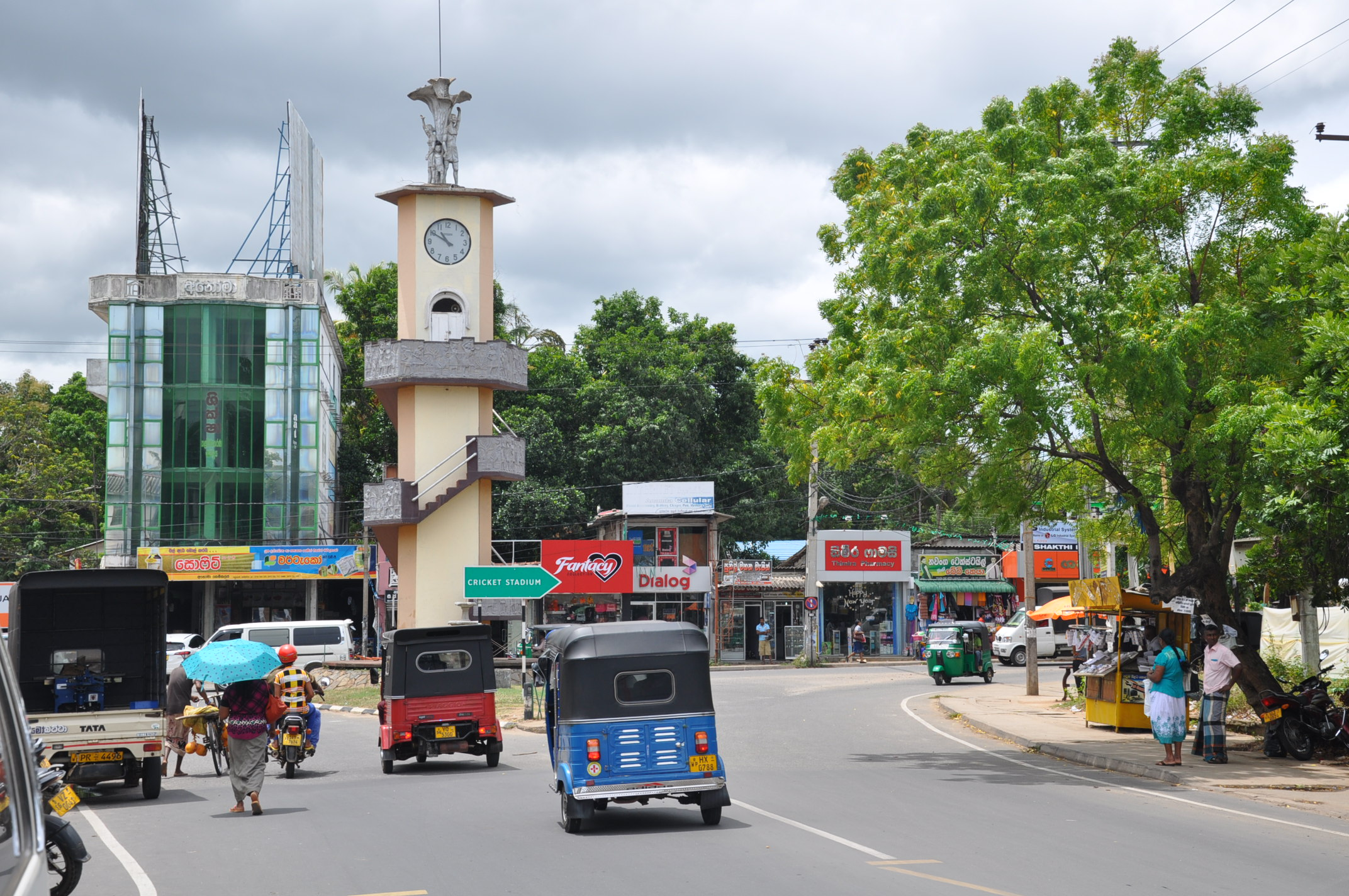 Clock tower in the centre of Embilipitiya (Ratnapura District, Sabaragamuwa Province, Sri Lanka).